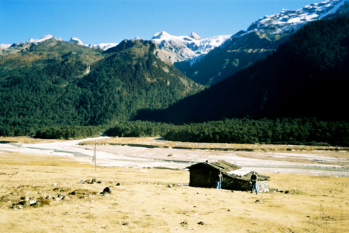 Yumthang Valley, in North Sikkim district, Sikkim, India is situated in the northeast region of Sikkim. It is 11,000 feet above sea level nestled in the Himalayas. Picture clicked by me, Nichalp on December 11, 2004